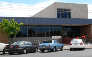 Photo of exterior of Horsham library, with workmen adding finishing touches prior to official opening.